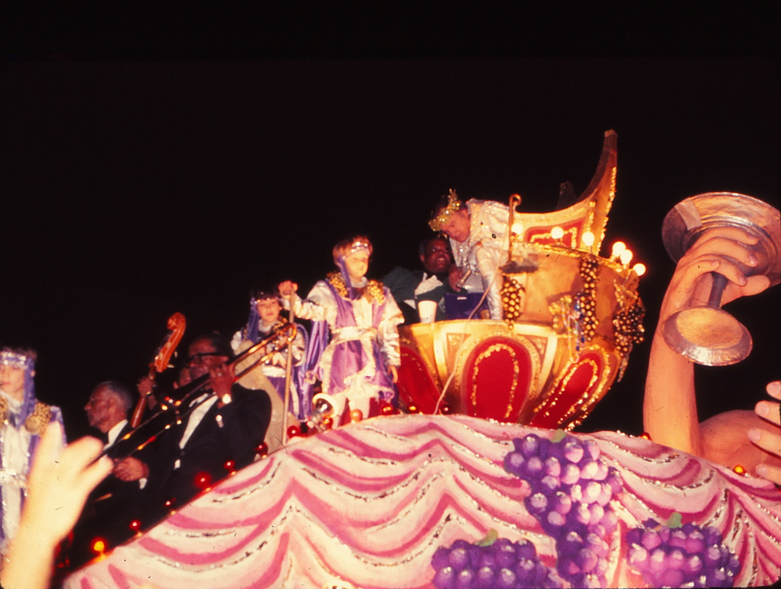 Louisiana - New Orleans - Mardi Gras Baachus Parade - 4 March 1973. Bob Hope was King Bacchus this year. Notes: Musicians visible at front of float (left of photo) are Louis Barbarin (drummer) and Waldren "Frog" Joseph, trombone. String bass player with face not visible. Possibly the Papa French Jazz Band was on the float, as Barbarin and Joseph were with that prominent local jazz band at the time.